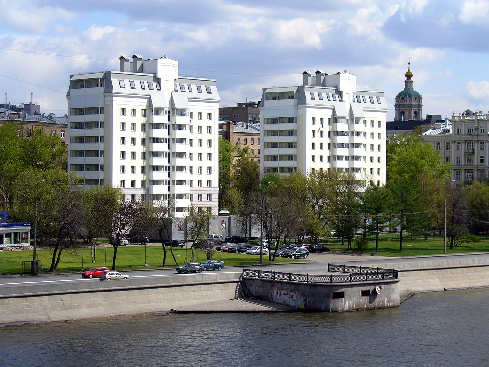 Krasnokholmskaya Embankment, Moscow. Gentrified plattenbau apartments built in 1962